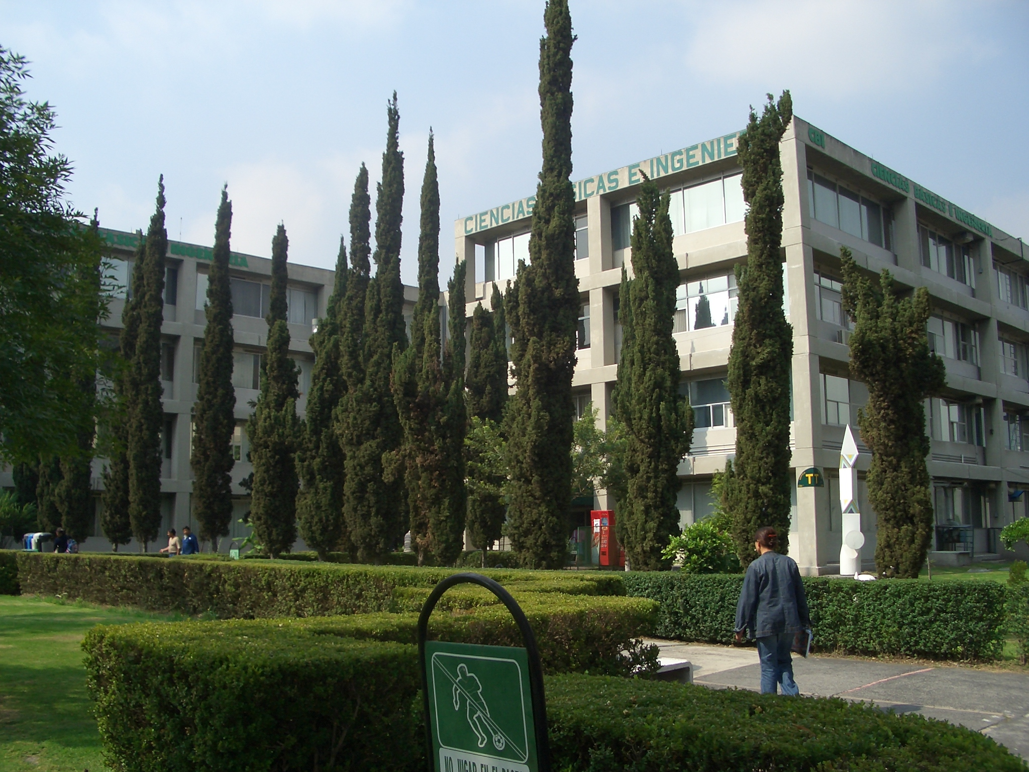 It's a photograph of the CBI (Basic Ciencie and Engineering ) building at UAM-I